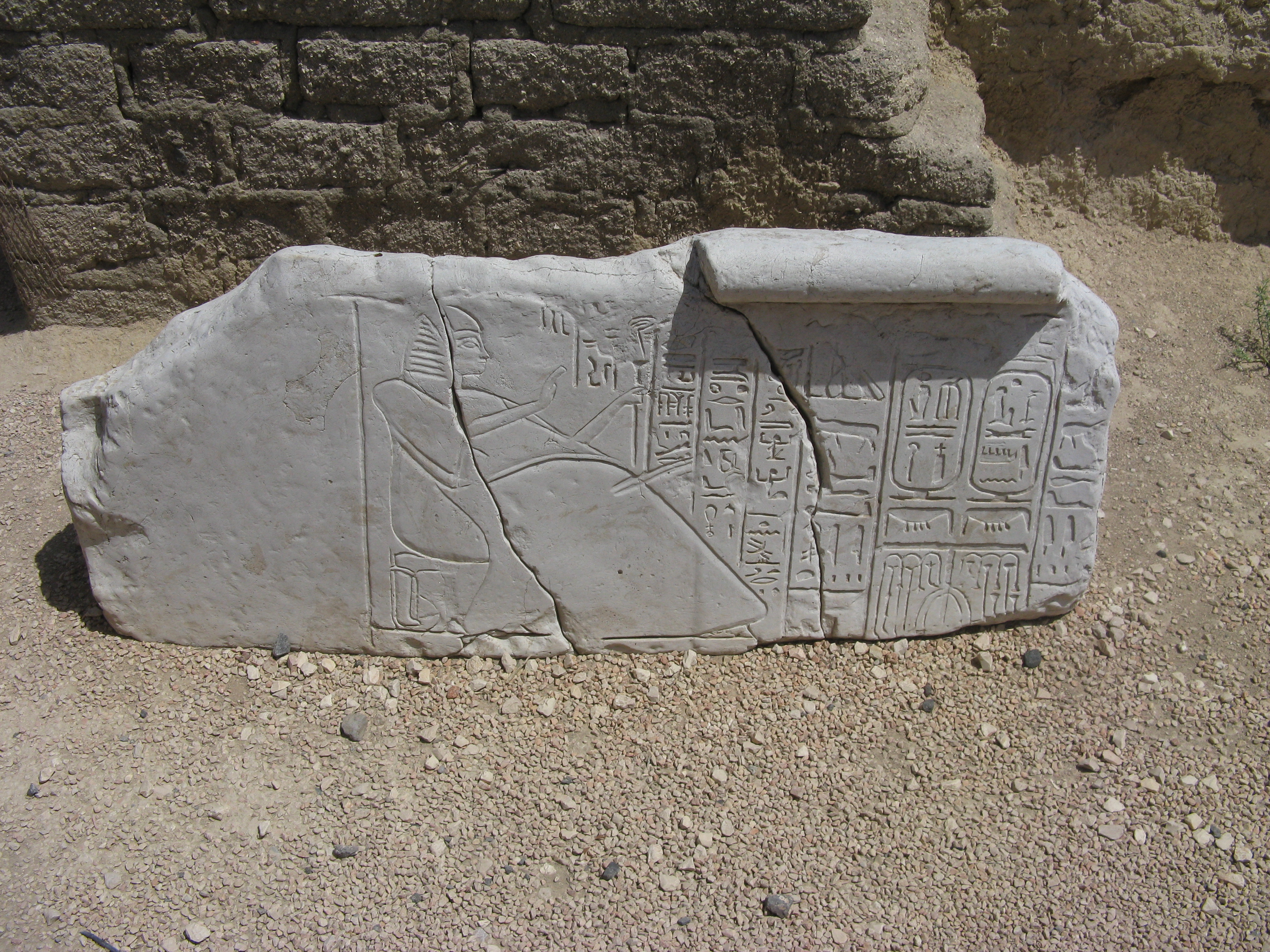 A copy of the Egyptian plate.